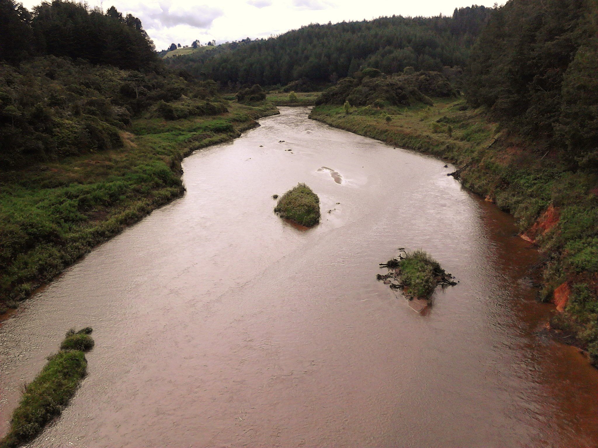 Rio Grande, Entre Santa Rosa de Osos y Entrerríos